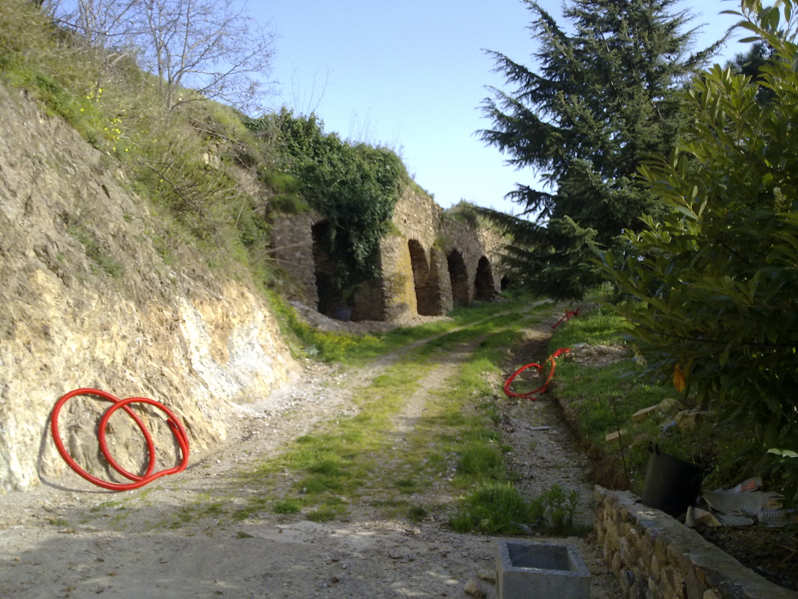 Aqueduct of Maida, Italy